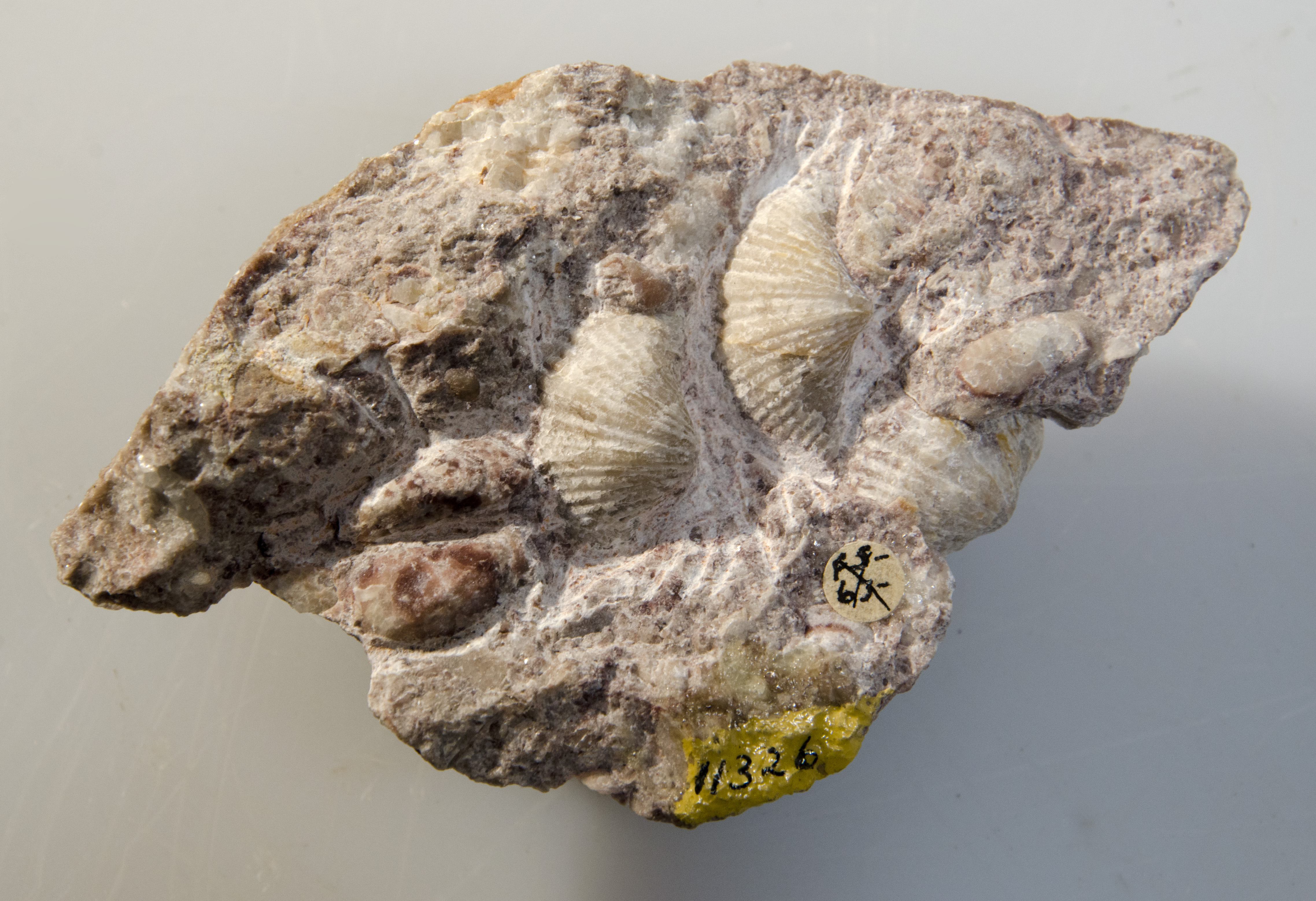 HOR: SUPAI FORMATION, THREE FOOT LEDGE OF CRYSTALLINE LIMESTONE, 80 FEET ABOVE BASE OF FORMATION. 105 X 65 X 20 MM. OLD CAT. NO. FS-63. NPS photo by Michael Quinn.